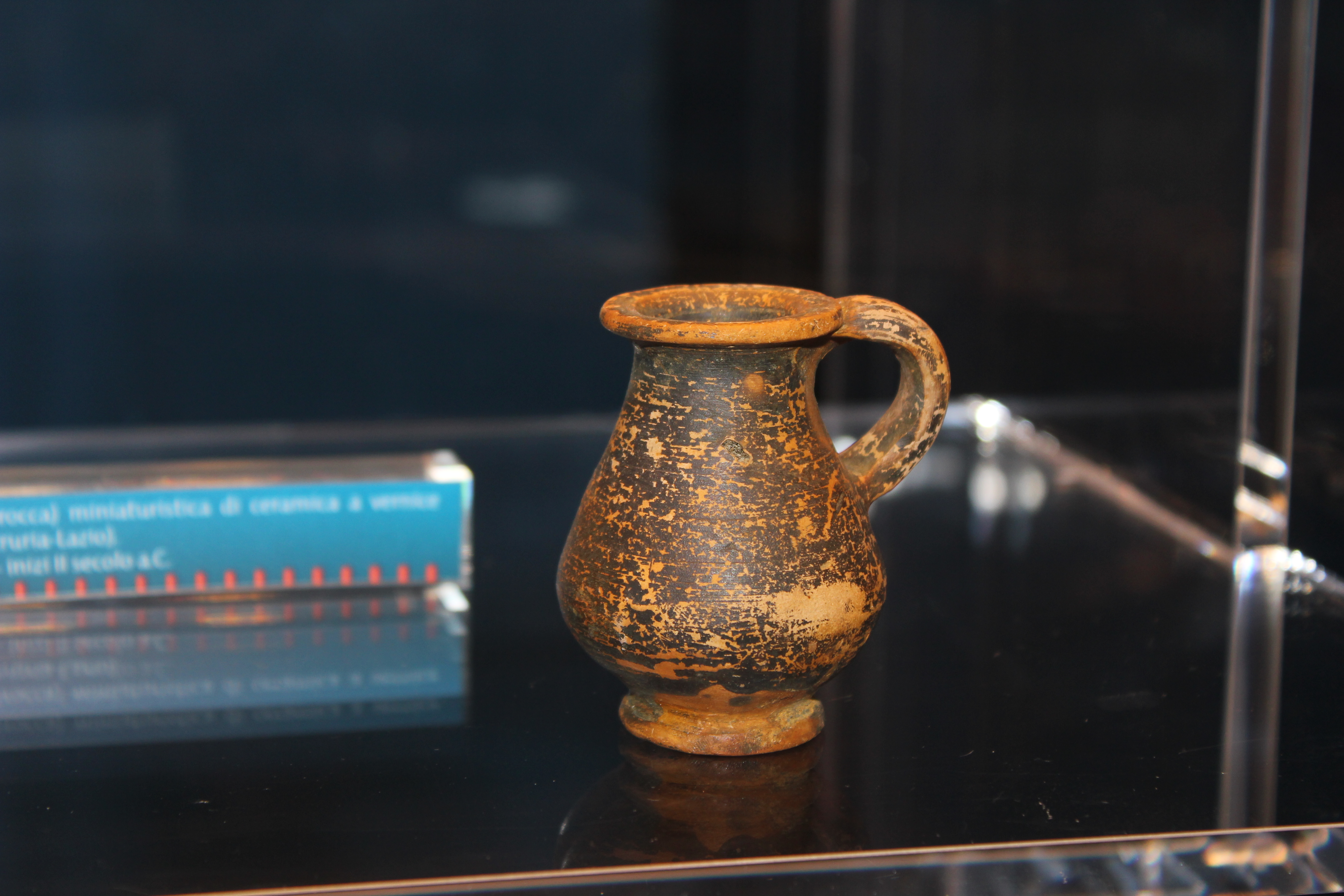 Archeological Museum of Portus Scabris, Puntone di Scarlino